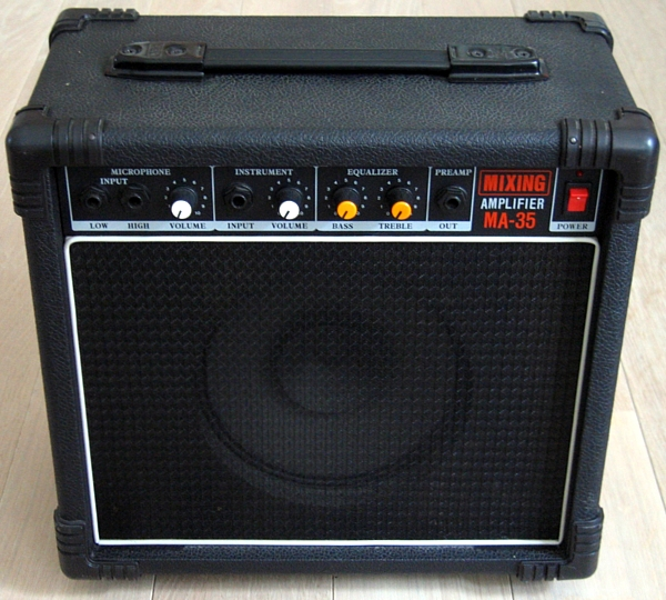 Mixing Amplifier MA-35